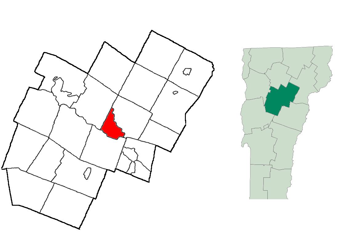 A location map of Montpelier in Vermont, USA.